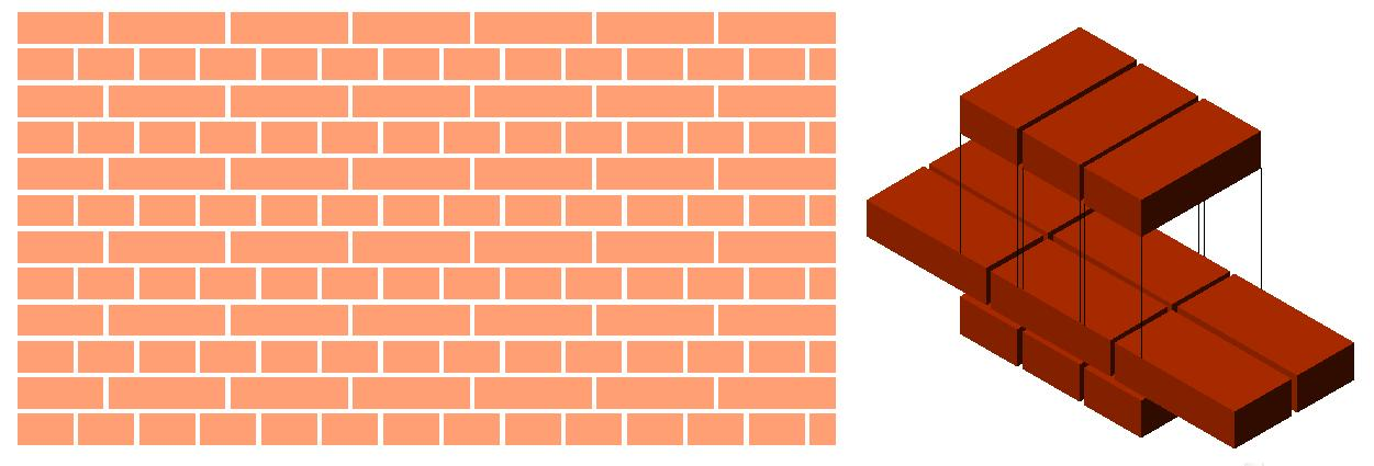 Bricklaying, brickwork bonds, English bond